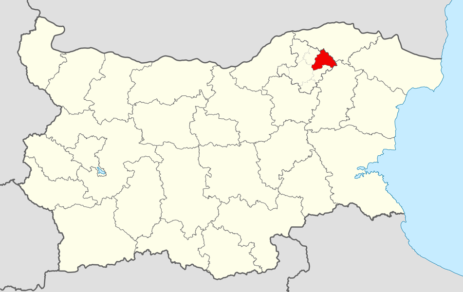 Location map of Isperih Municipality within Bulgaria and Razgrad Province. Equirectangular projection, N/S stretching 130 %. Geographic limits of the map: N: 44.4° N S: 41.1° N W: 22.1° E E: 28.9° E